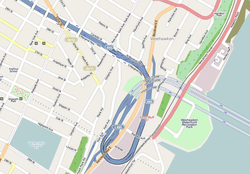 The area of New Jersey Route 495 and the Lincoln Tunnel in North Bergen viewed from OpenStreetMap, an open-source mapping project.